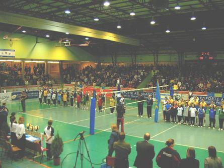 Pabellón de La Arena, sports pavillion located in Gijón. Photo taken during the friendly game between the women's volleyball teams of Asturias and Scotland.